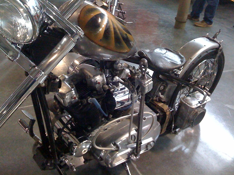 Motorcycle with "jockey" gear shift lever. Note the awesome "suicide shifter" action.